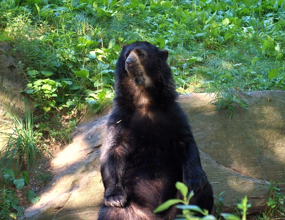 Tremarctos ornatus Queens Zoo, Flushing Meadows, Corona, NY